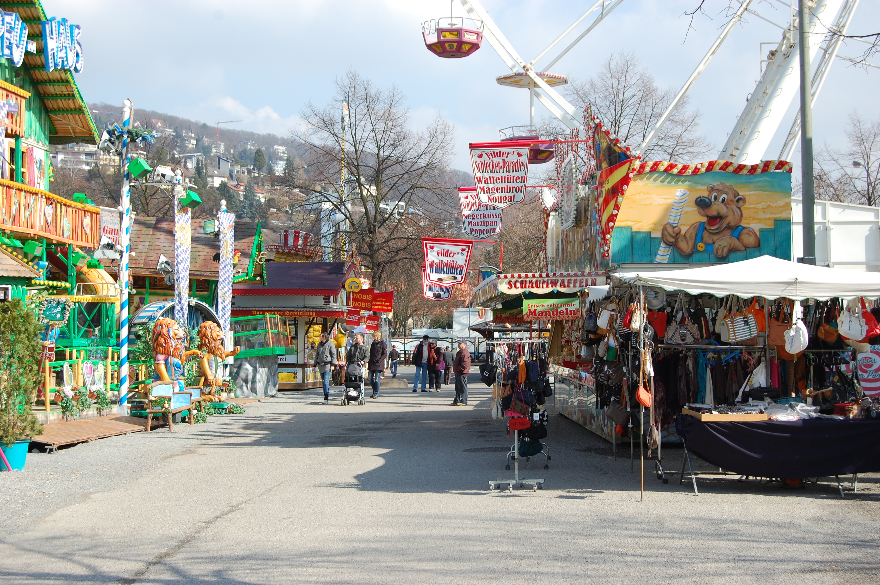 Mathaisemarkt 2012 in Schriesheim, Germany.